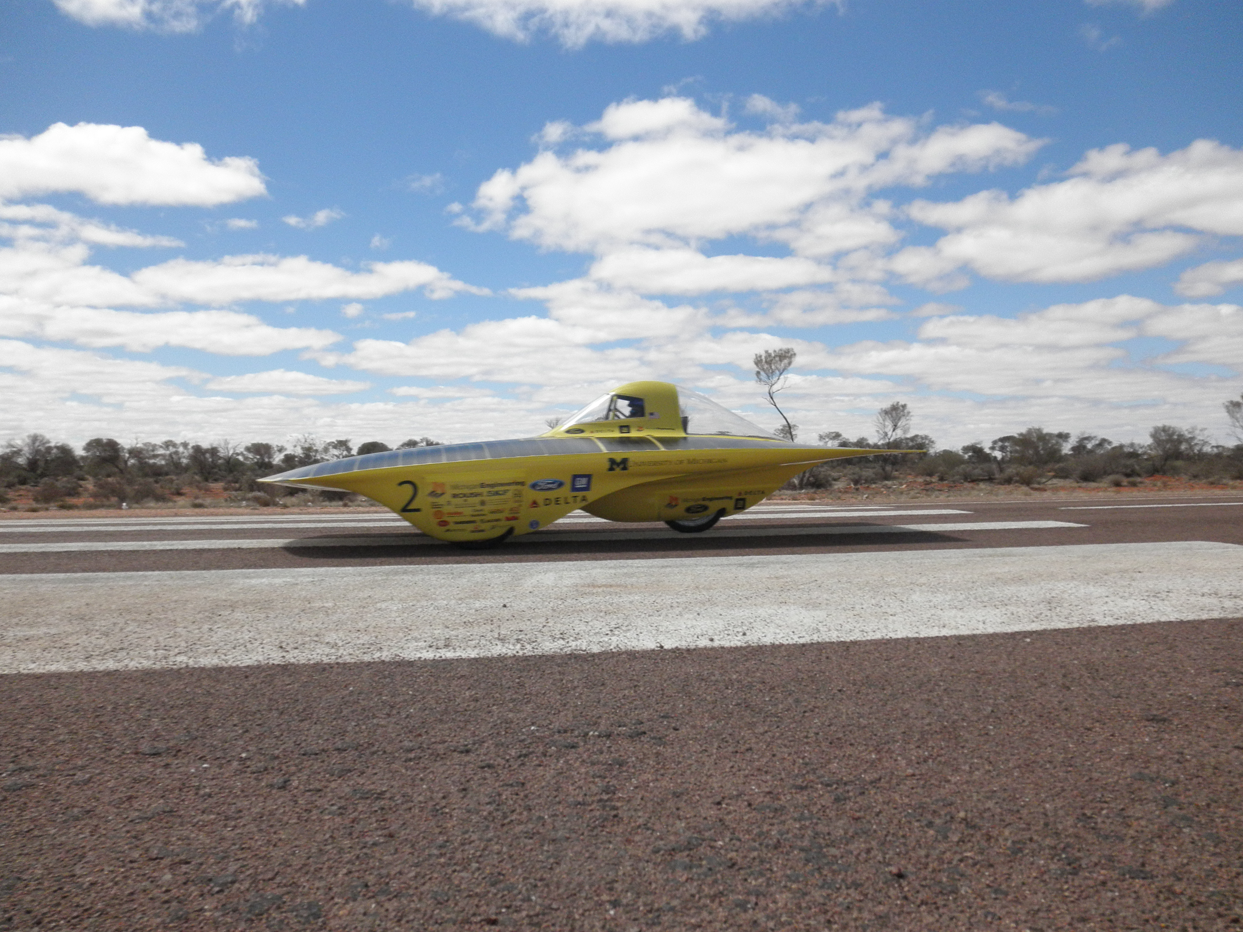 Picture taken with my camera (Olympus Stylus 7010) during roll-down testing on the Stuart Highway in Australia. This solar car, Infinium, is the 10th car built by the University of Michigan Solar Car Team.